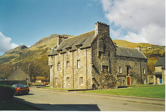 Menstrie Castle, Clackmannan, at the Foot of the Ochil Hills